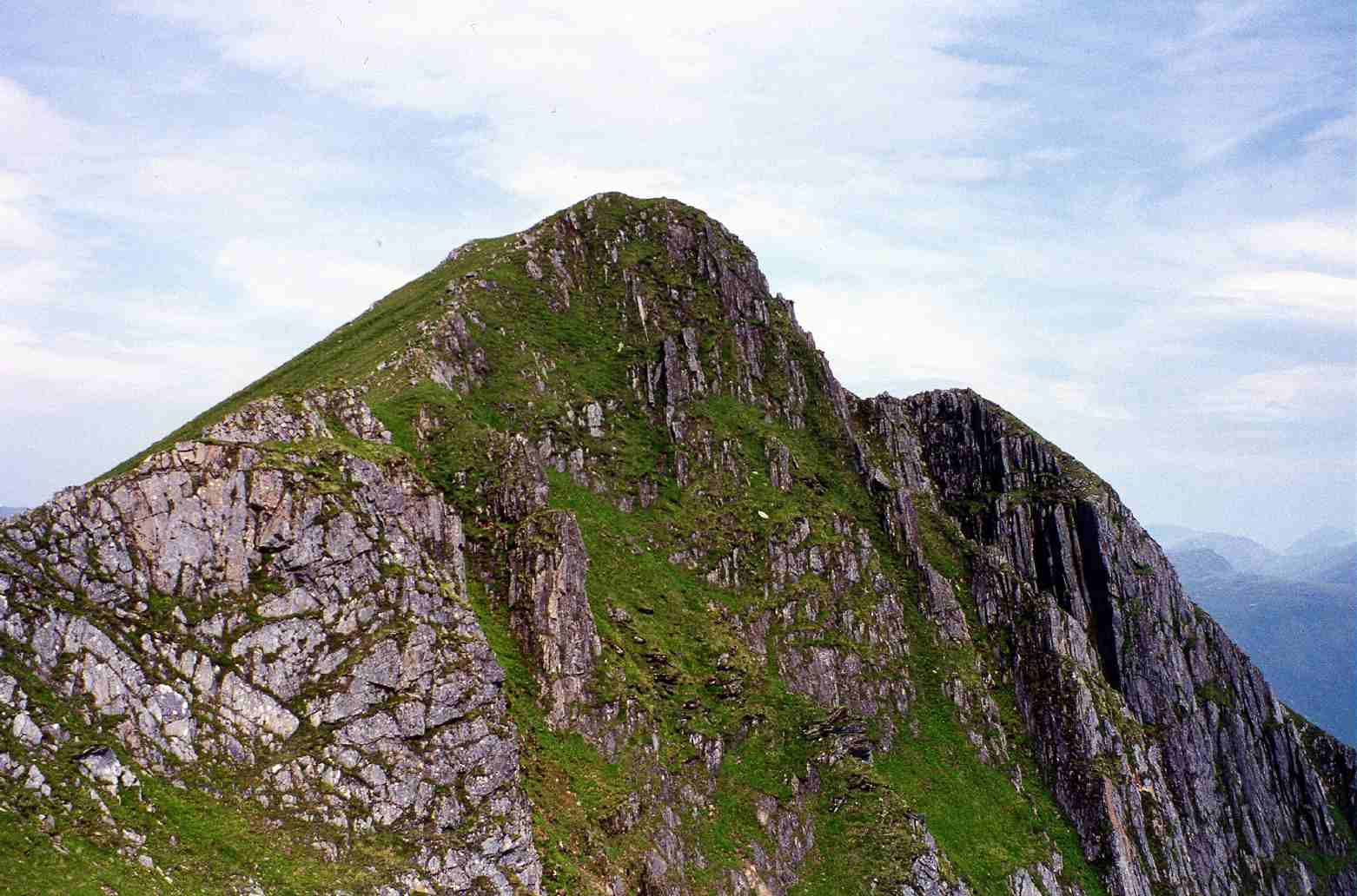 Personal picture by Mick Knapton